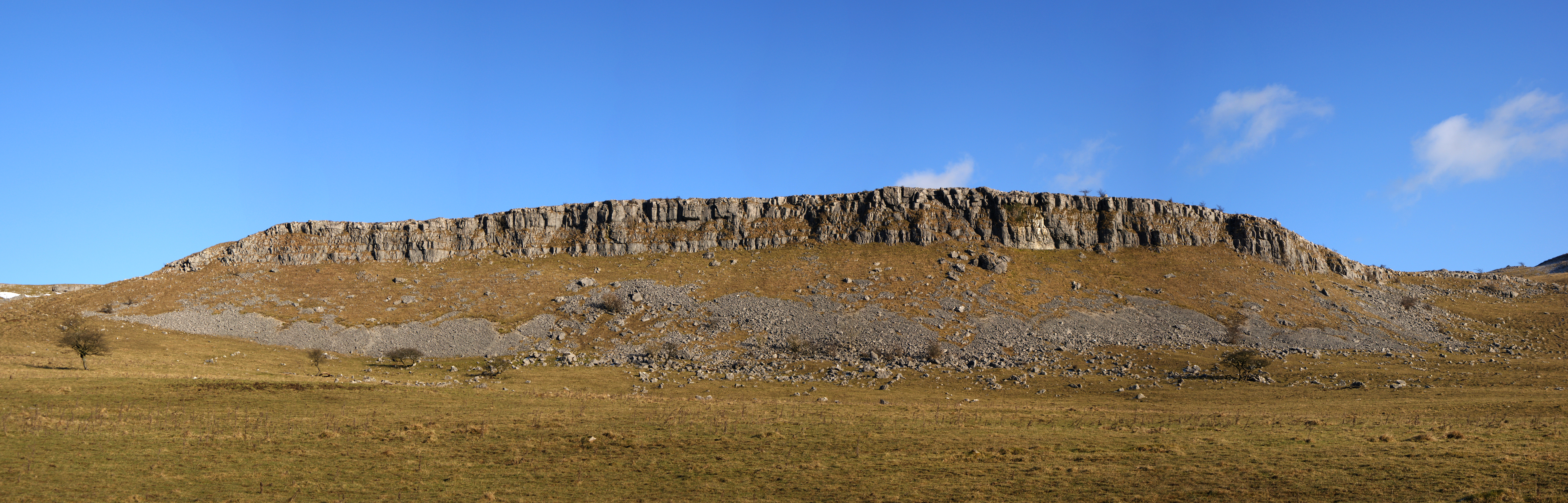 Panoramic image of the western face of Thwaites scars, taken from Long Lane